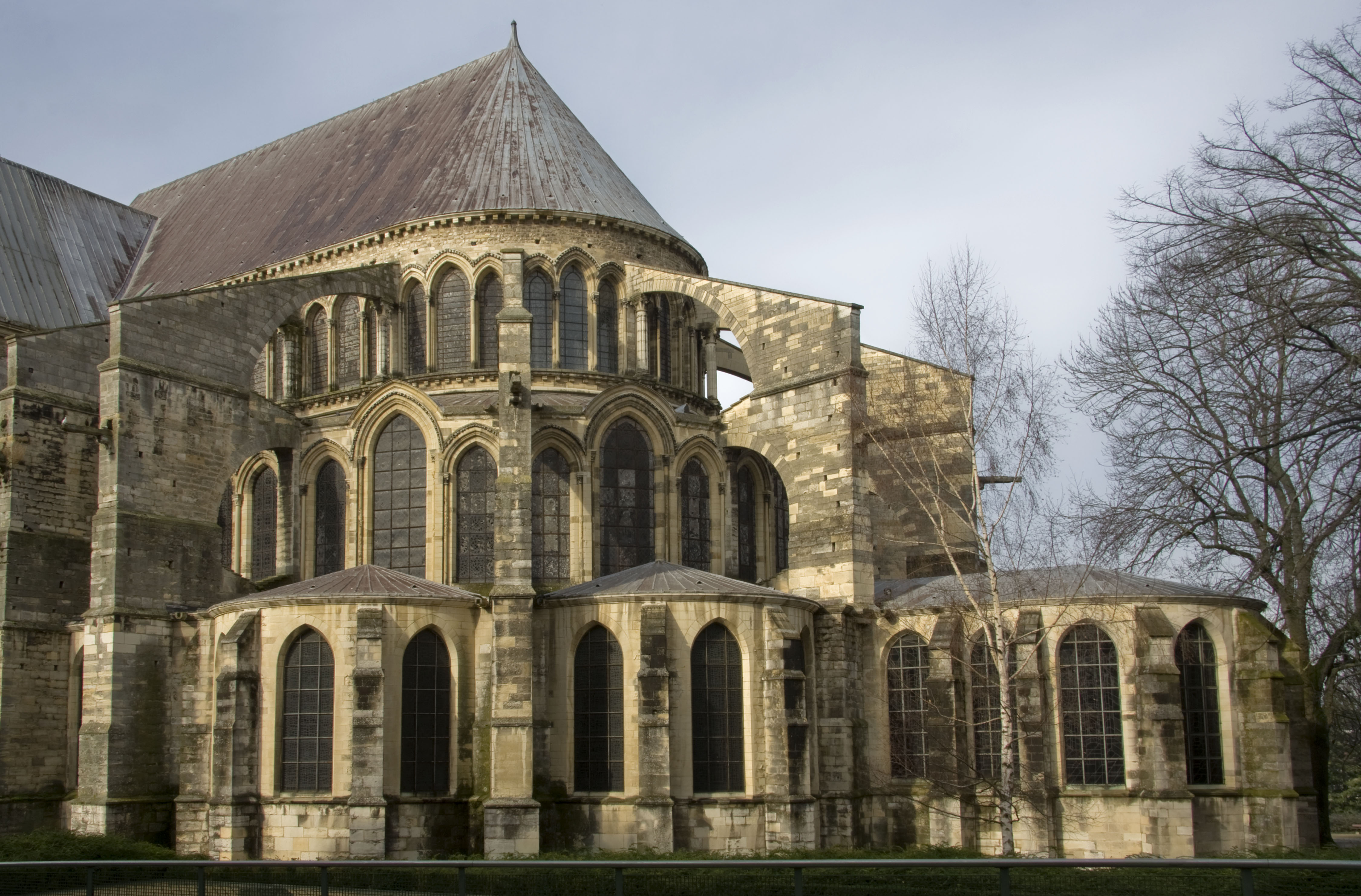 View of St Remi choir from the south east (looking north west).